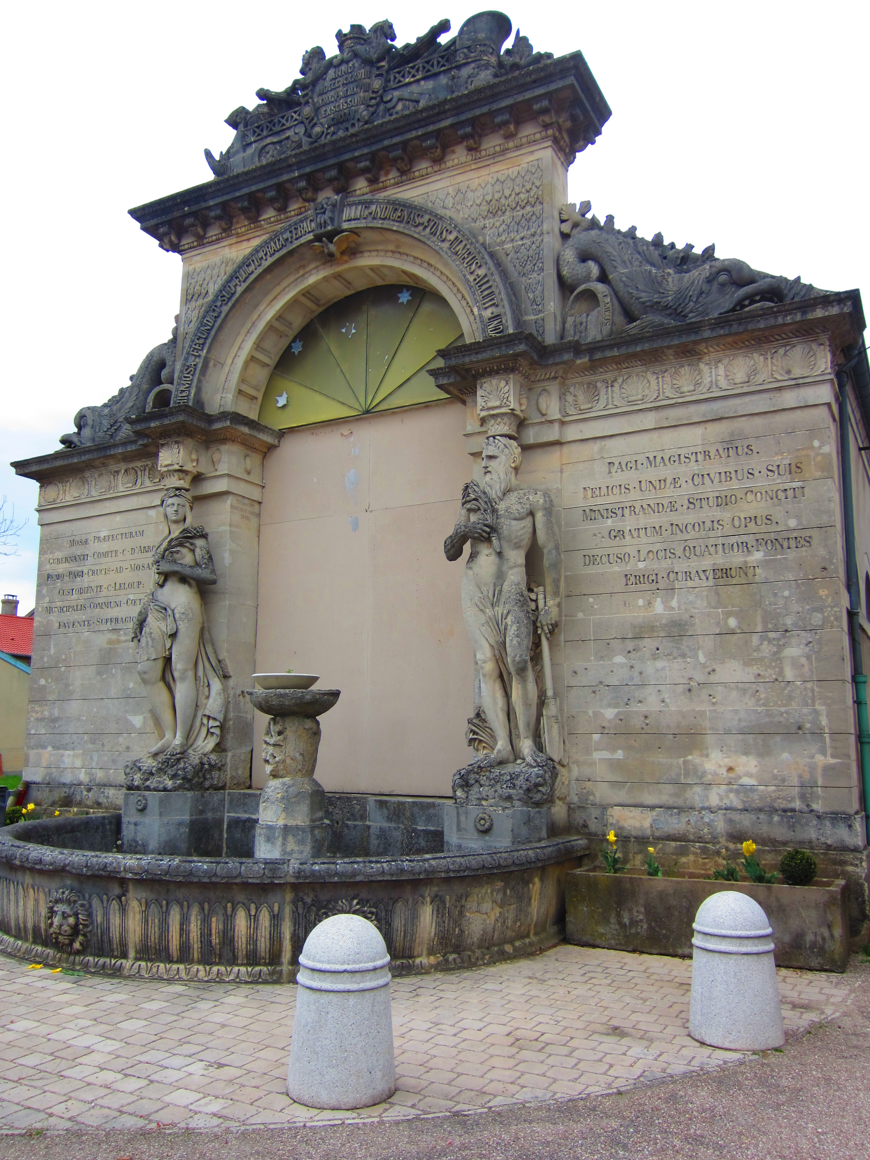 Lacroix Meuse fountain